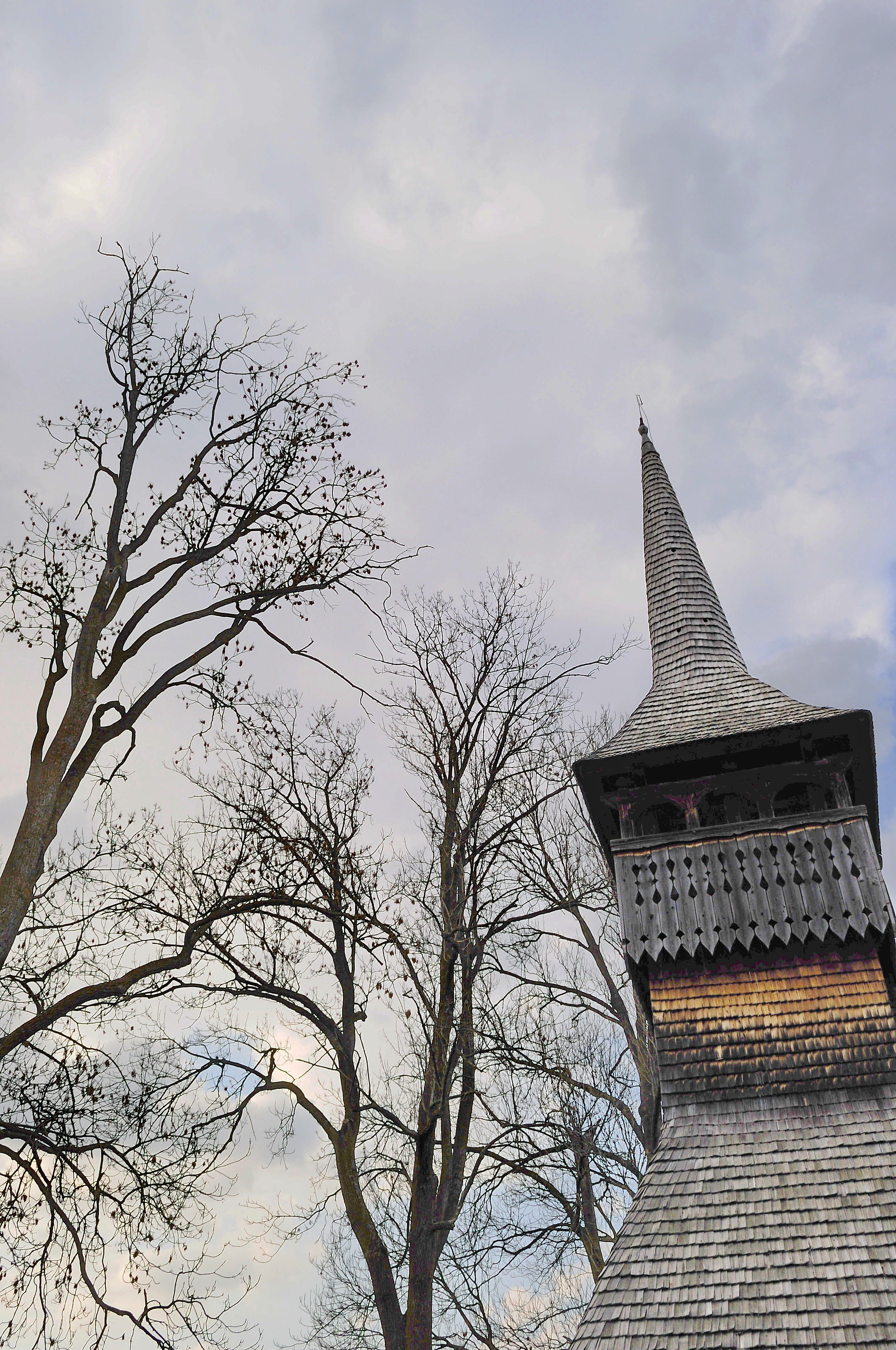 Wooden church in Bica, Cluj countyRomână: Biserica de lemn din Bica, județul Cluj